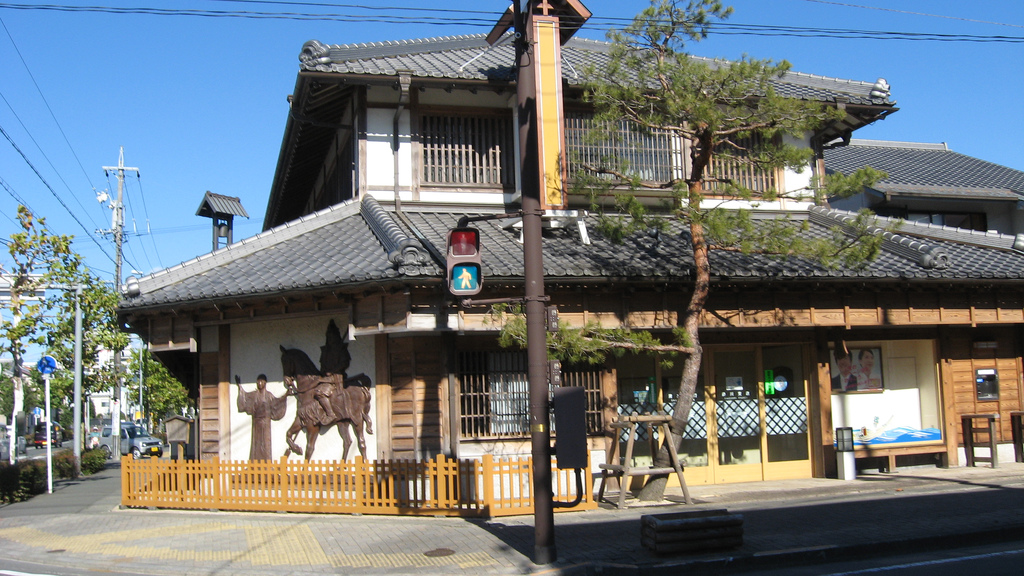 Kakegawa Branch, the Shimizu Bank,Ltd. Kakegawa City, Shizuoka Prefecture.